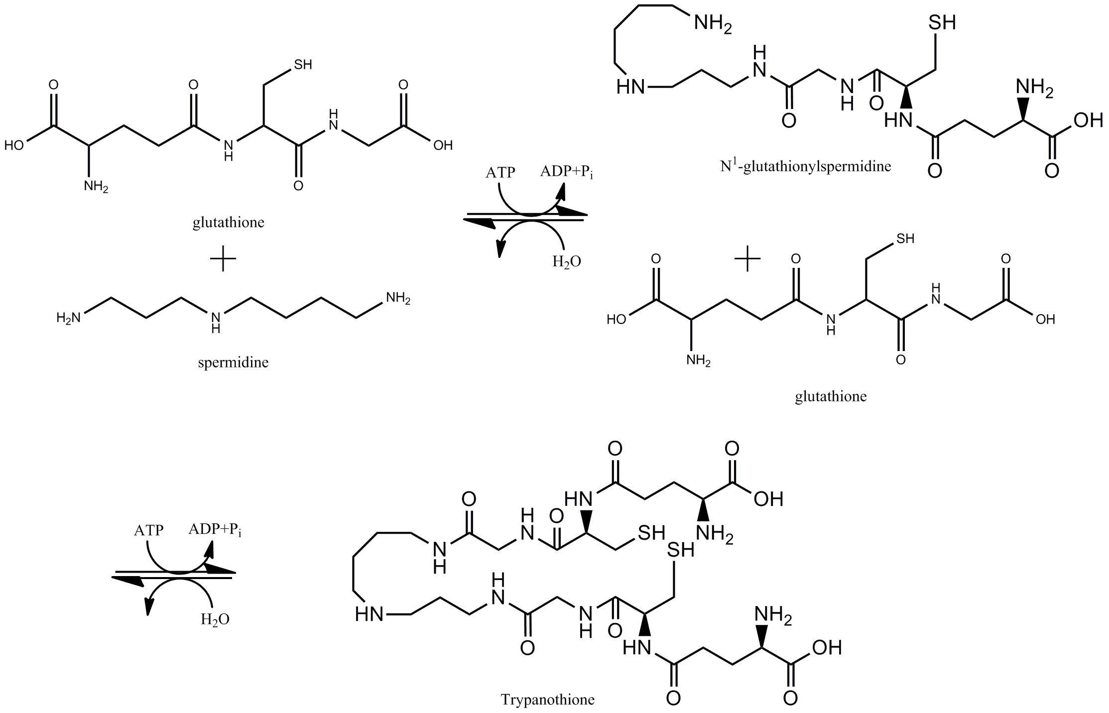 The formation of trypanothione from spermidine and glutathione